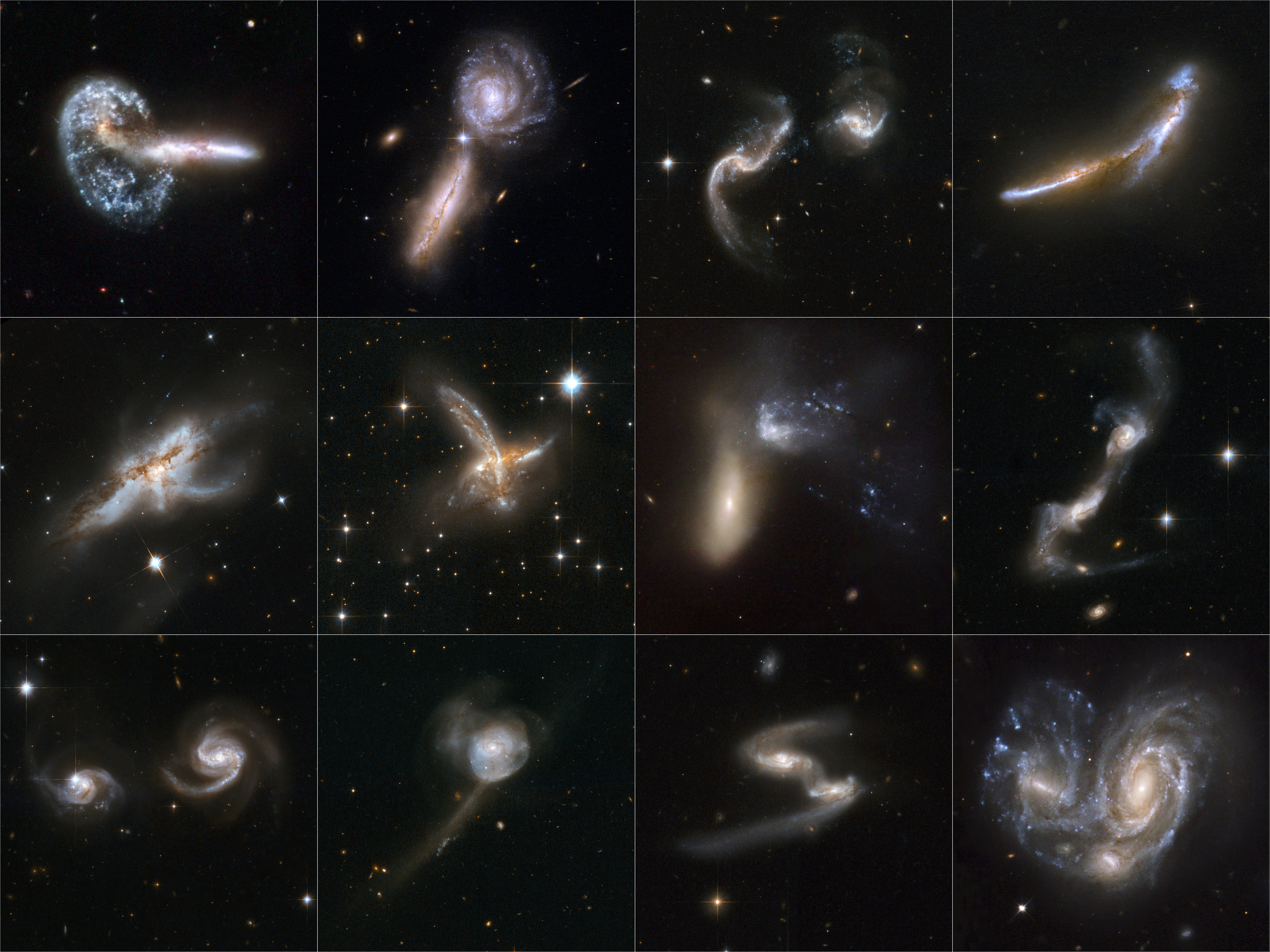 Caption for the image.